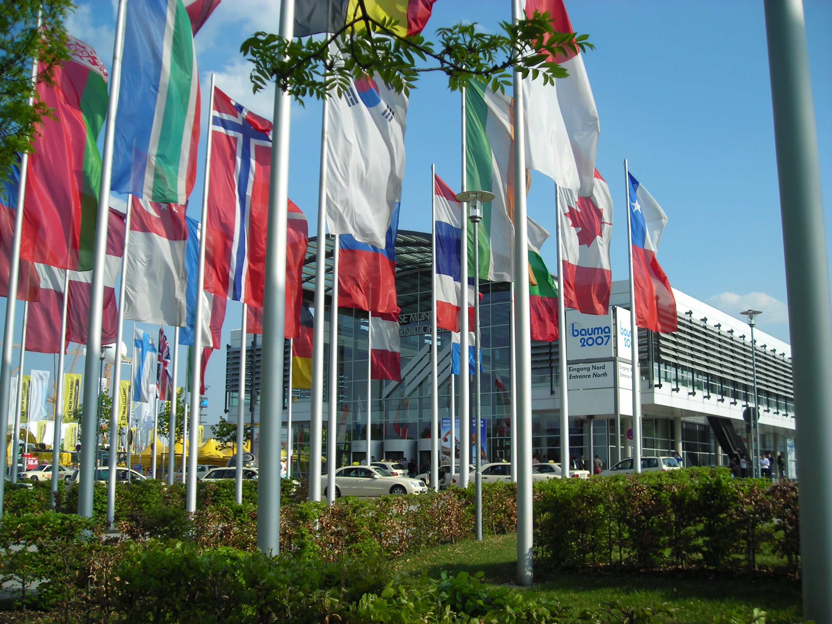 bauma 2007 Munich, Germany - main entrance.